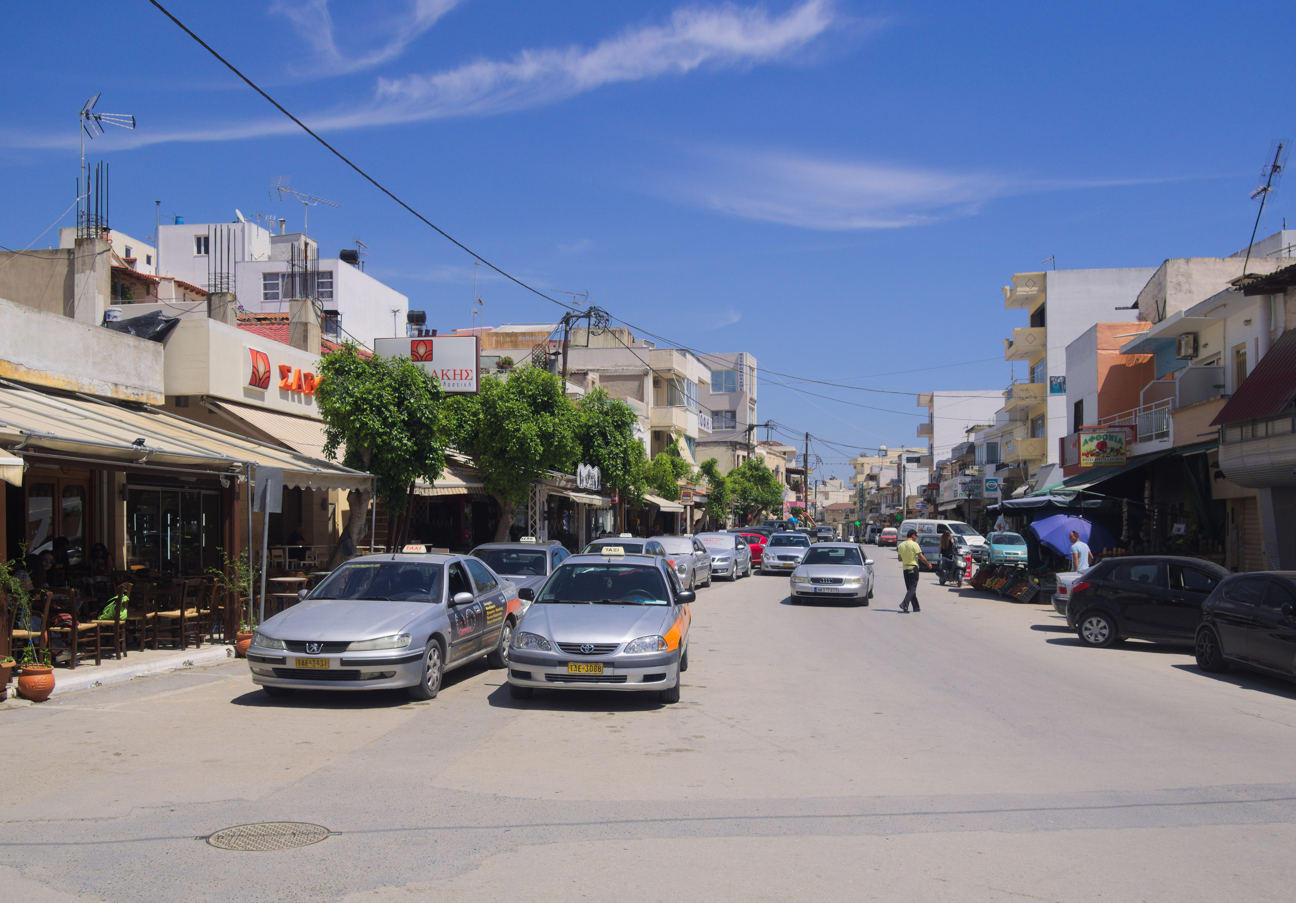 The centre of Moires, along 25th March street, Crete.